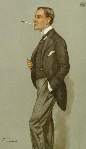 Caricature of Albert Yorke, 6th Earl of Hardwicke. Caption read "Tommy Dodd".